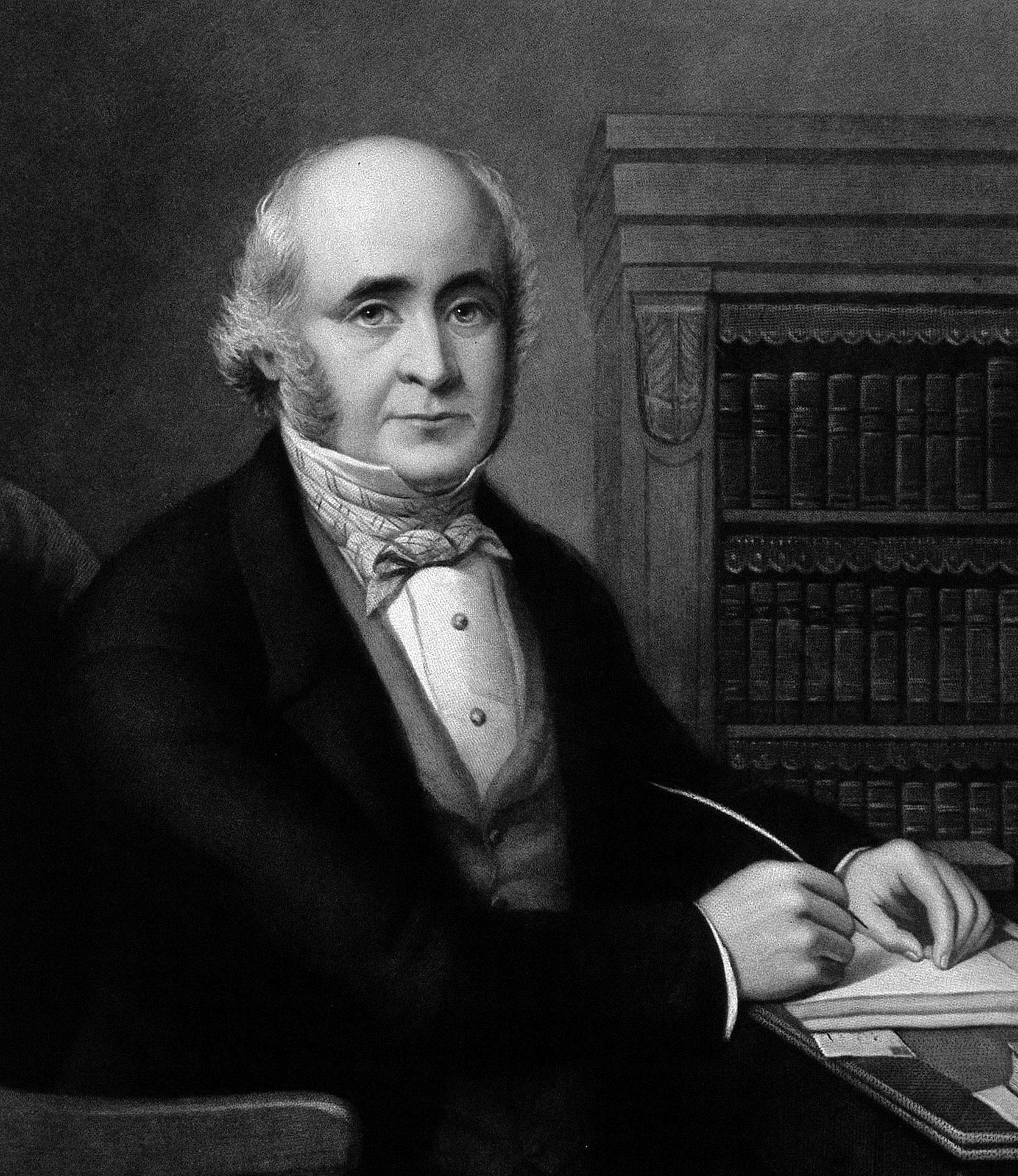 Robert Bentley Todd